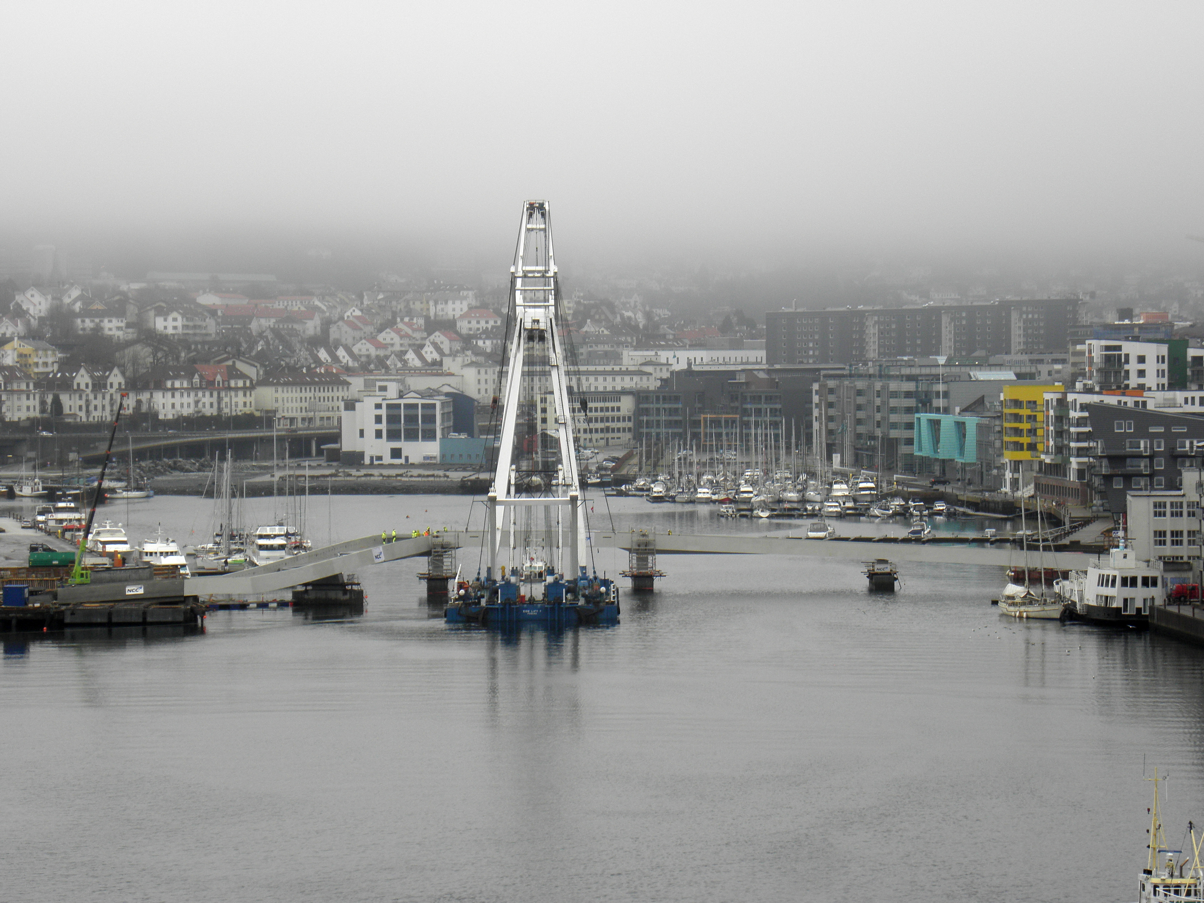 The bridge Småpudden in Bergen, Norway under construction.